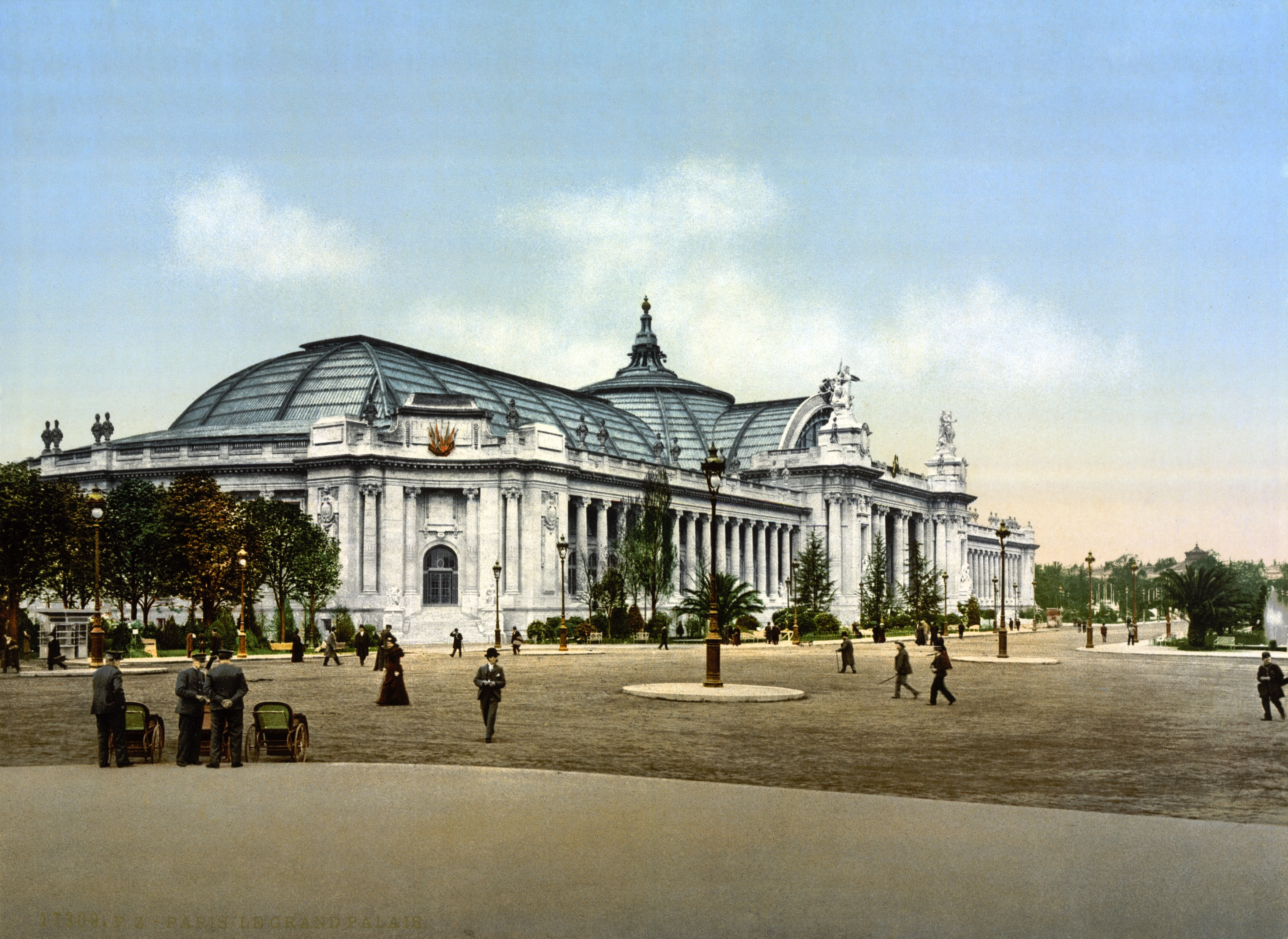 The Grand Palace, Exposition Universal, 1900, Paris, France